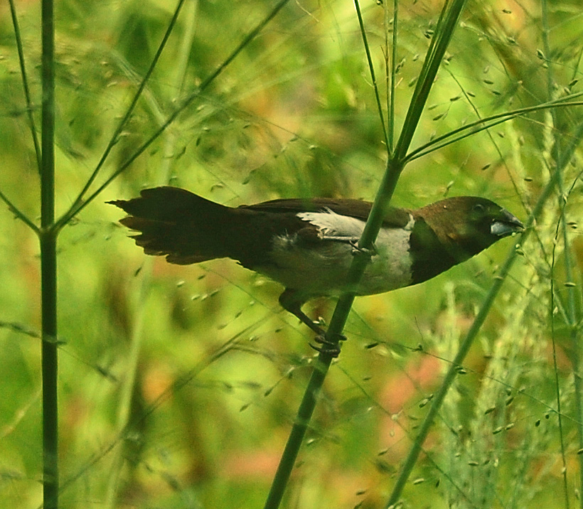 Lonchura leucogastroides. From Bogor, West Java, Indonesia